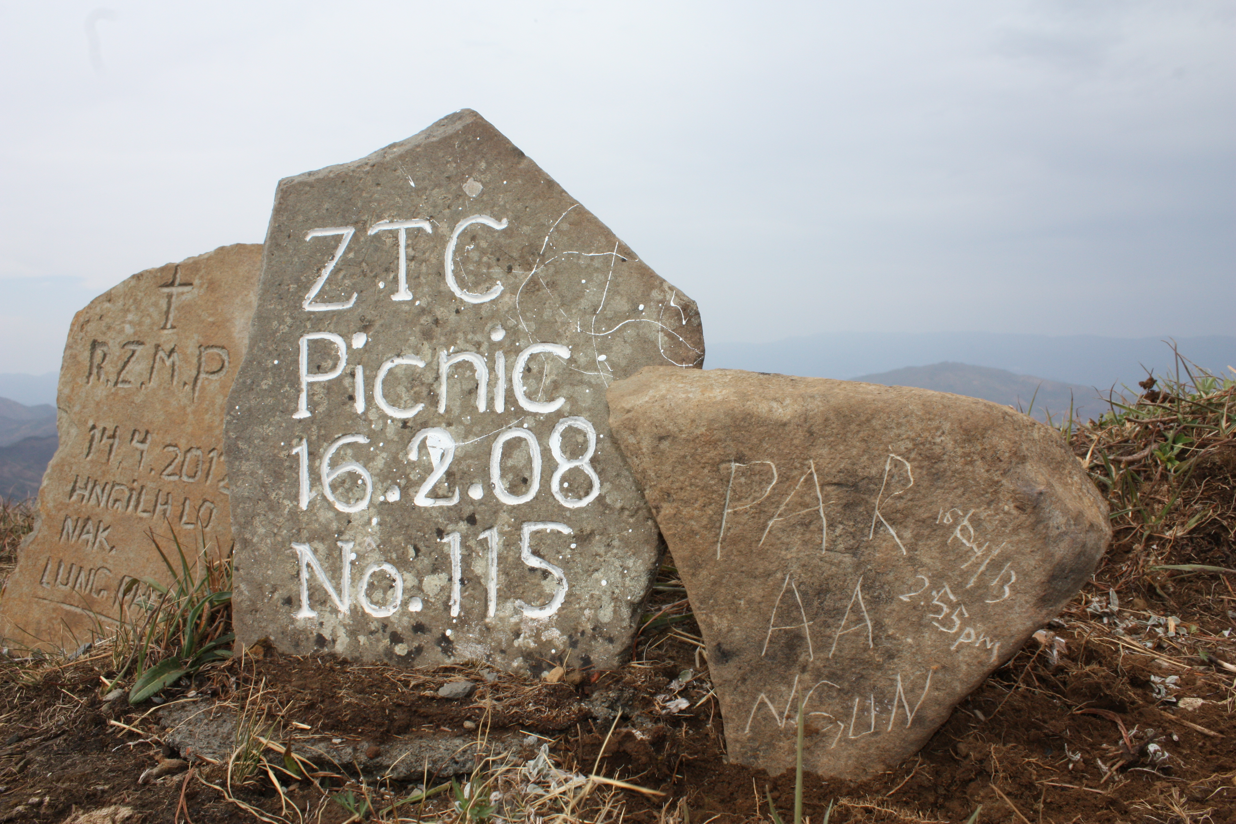 Zinghmuh Memorial Stone.jpg